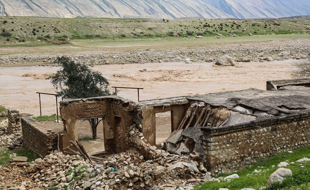 Aftermath of Mar 31, 2019 flood. Majeen, Darreh Shahr, Ilam Province.